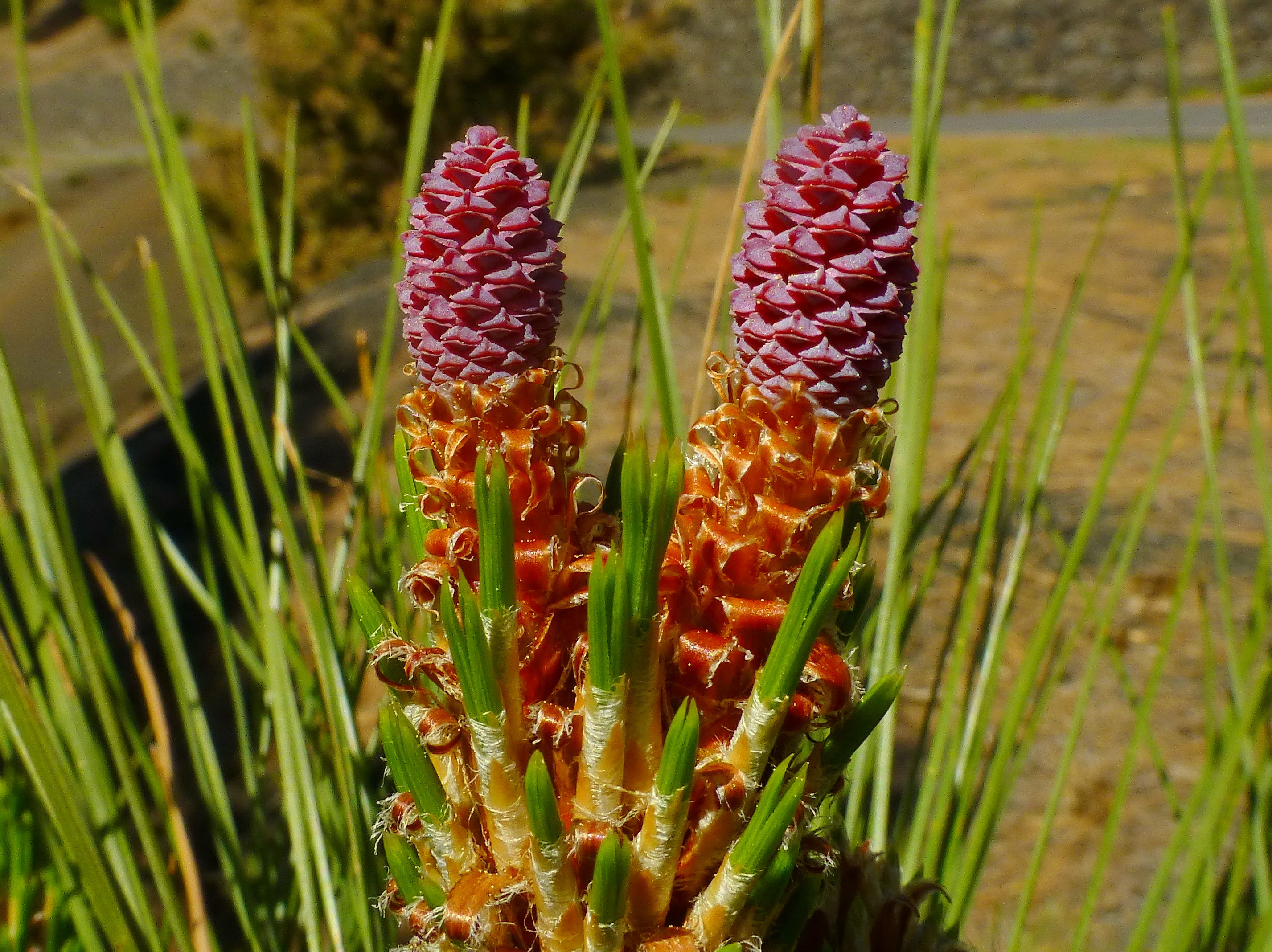 Young female cone of Canary Island pine (Pinus canariensis), "Pino canario", on El Hierro